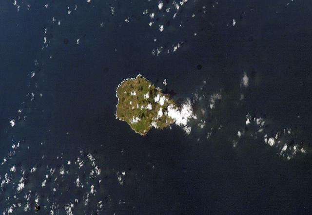 The small 4 x 8 km island of Graciosa is seen in this NASA Space Shuttle image.